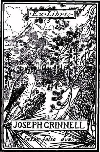 A punning book plate by Walter Fisher for ornithologist Joseph Grinnell's bird book. Designed by Walter K. Fisher in 1907 and first printed by Charles A. Nace